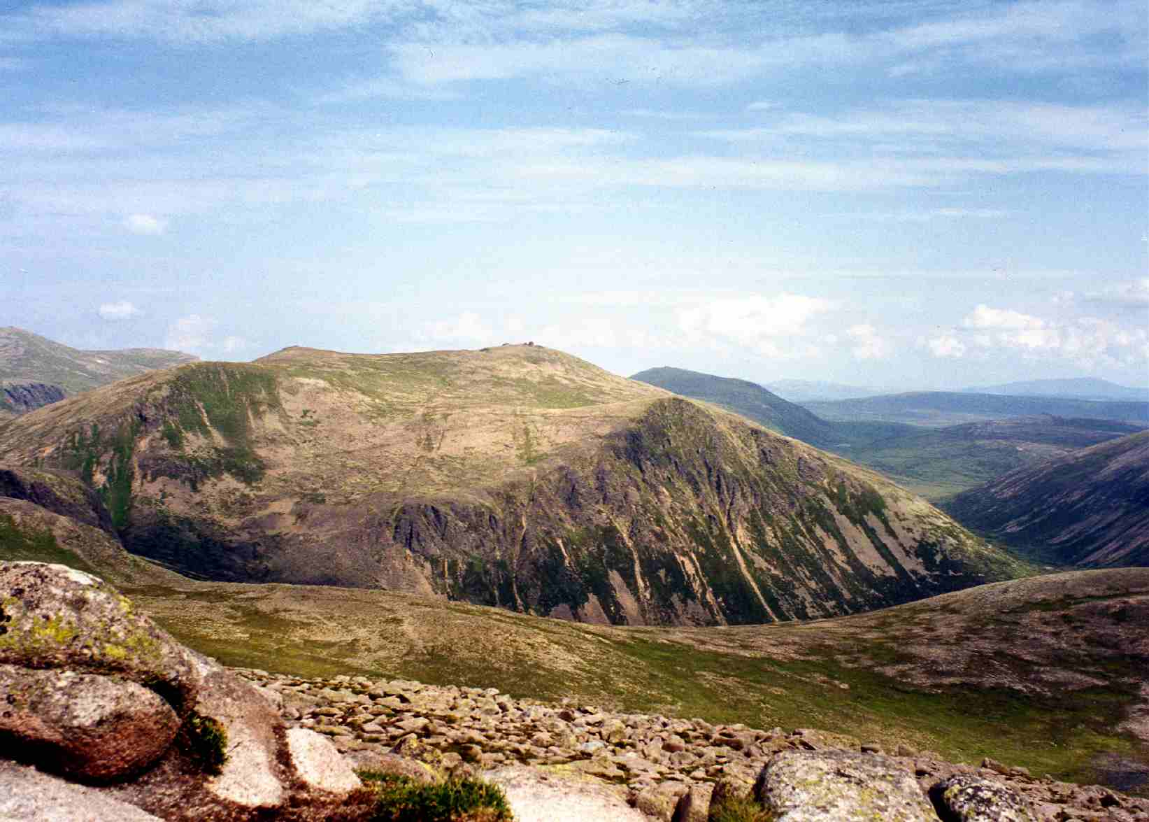 Personal photograph taken by Mick Knapton in August 1995.